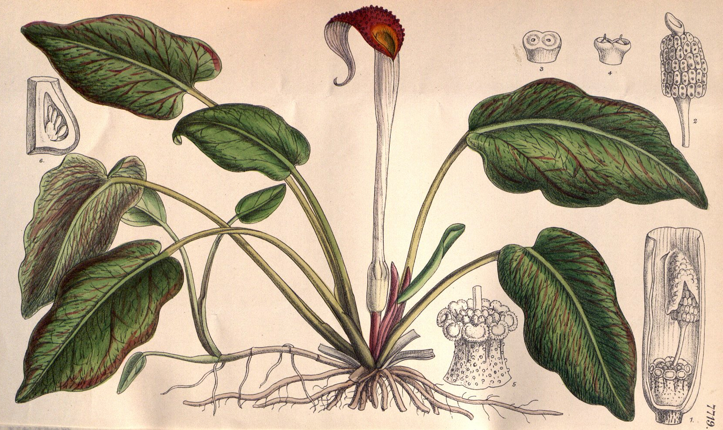 Cryptocoryne griffithii, botanical drawing